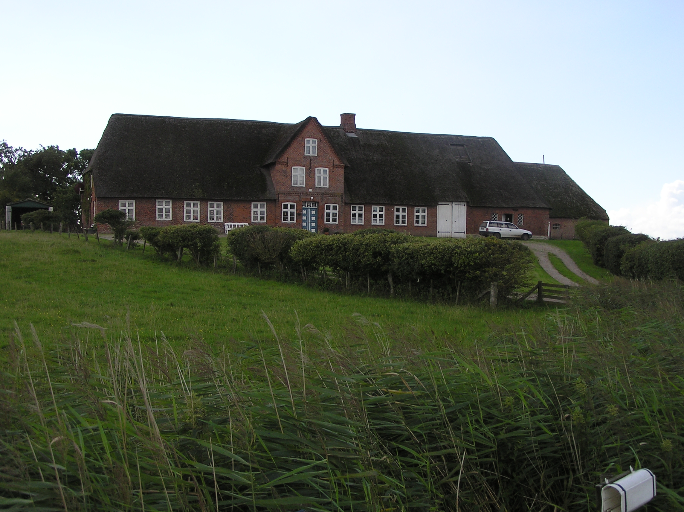 Ockholm Peterswarf. A Geestharden house in Ockholm, North Germany